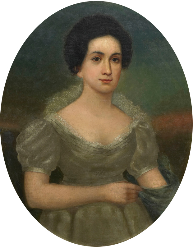 Oil portrait of Letitia Tyler (1790 - 1842), first wife of John Tyler, by an unknown artist; 42” x 36”